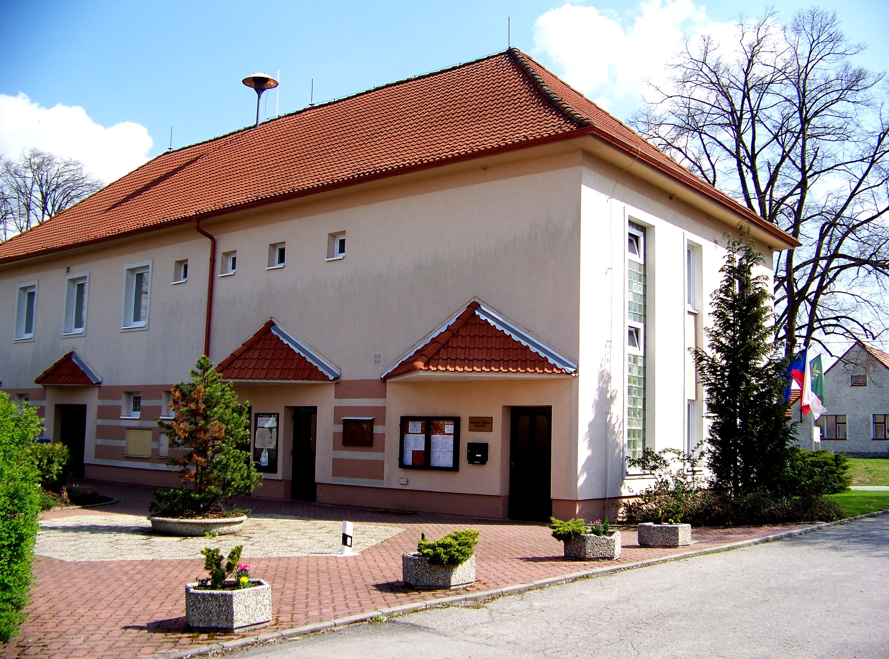 Building of municipal administration in Vrábče, České Budějovice District, Czech Republic